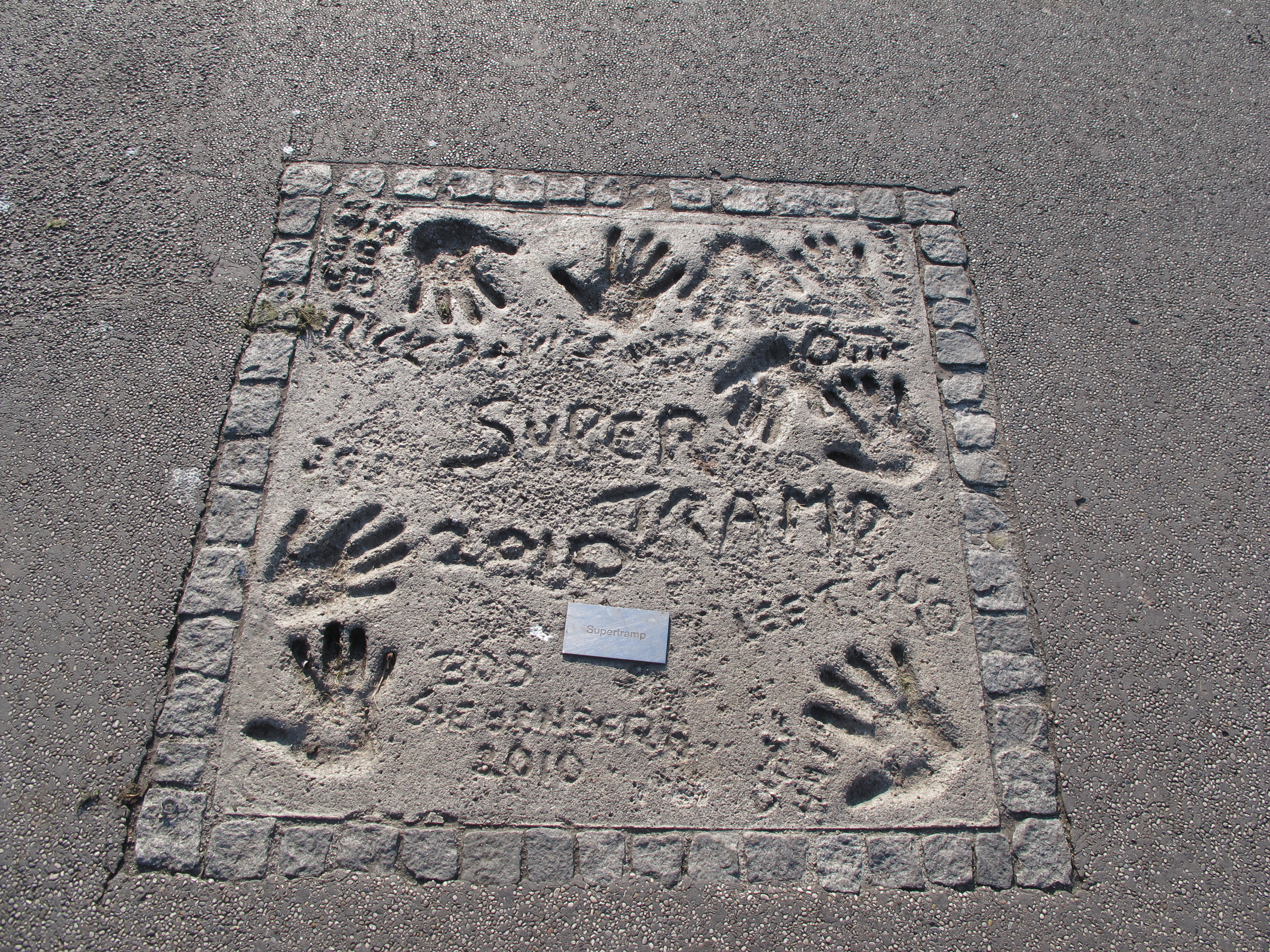 Handprints of Supertramp members in Olympiapark, Munich, Germany.